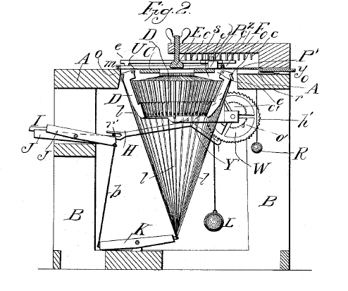 Side view of the Sholes and Glidden typewriter, as shown in United States patent 79868